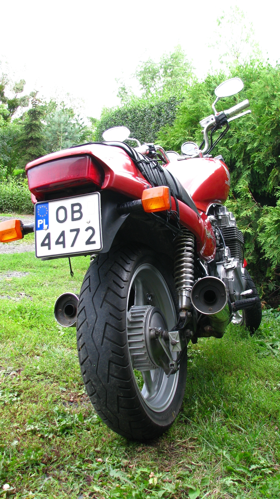 HONDA CB 750 Nighthawk